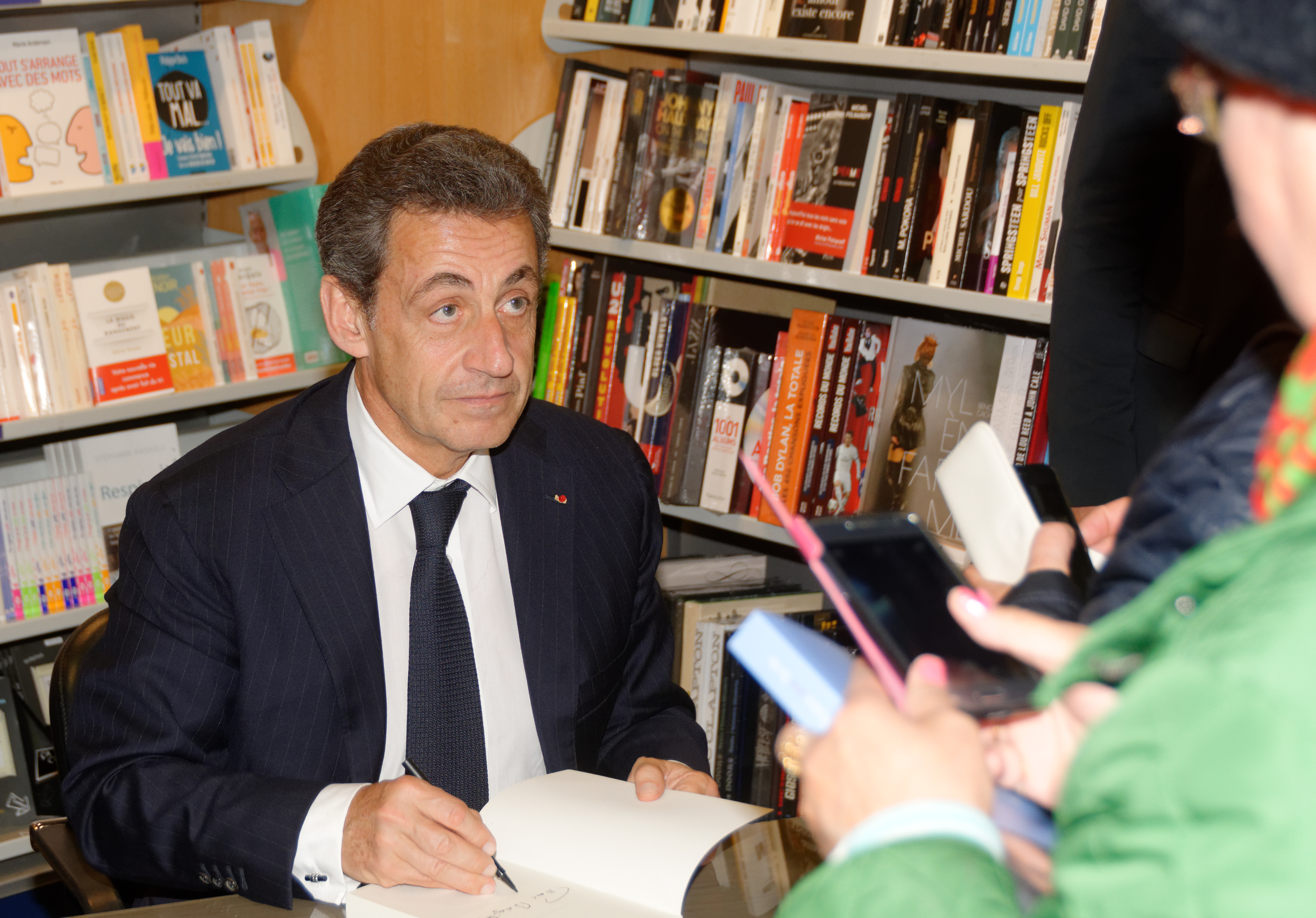 Personality rights warningAlthough this work is freely licensed or in the public domain, the person(s) shown may have rights that legally restrict certain re-uses unless those depicted consent to such uses. In these cases, a model release or other evidence of consent could protect you from infringement claims.